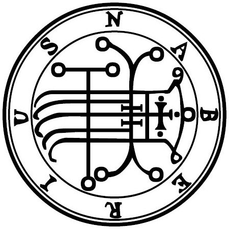 Naberius seal, THE BOOK OF THE GOETIA OF SOLOMON THE KING (1904)